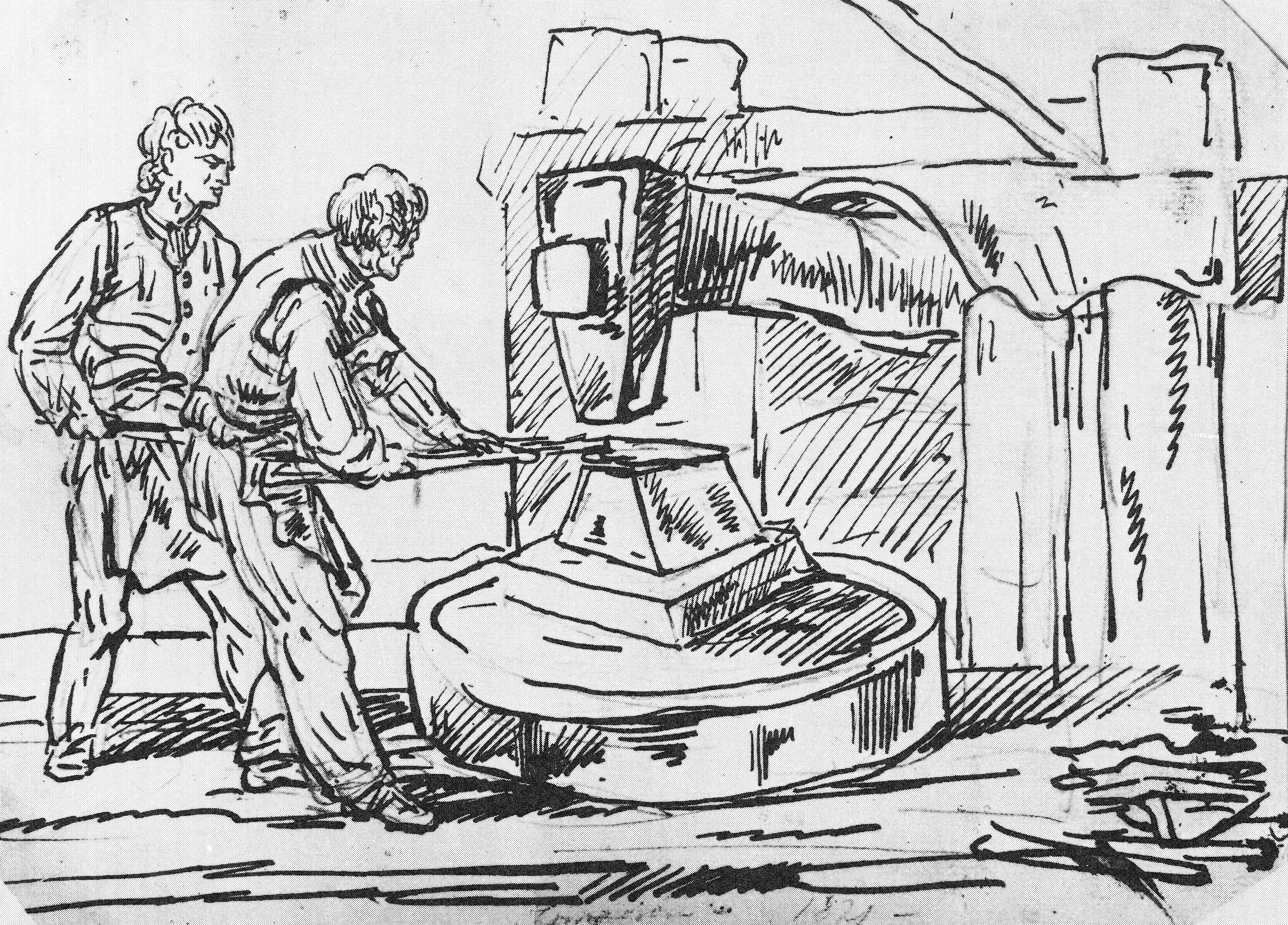 Steem-hammer in Kuznice-Tomaszow, 1821